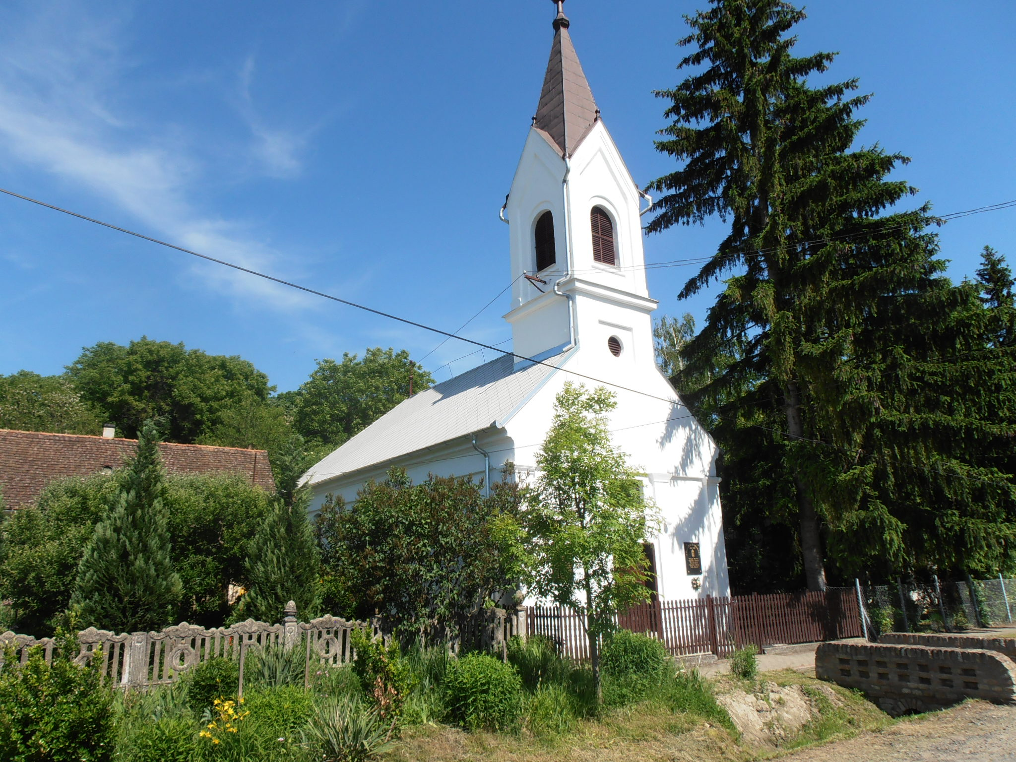 Calvinist church of Patca, Hungary